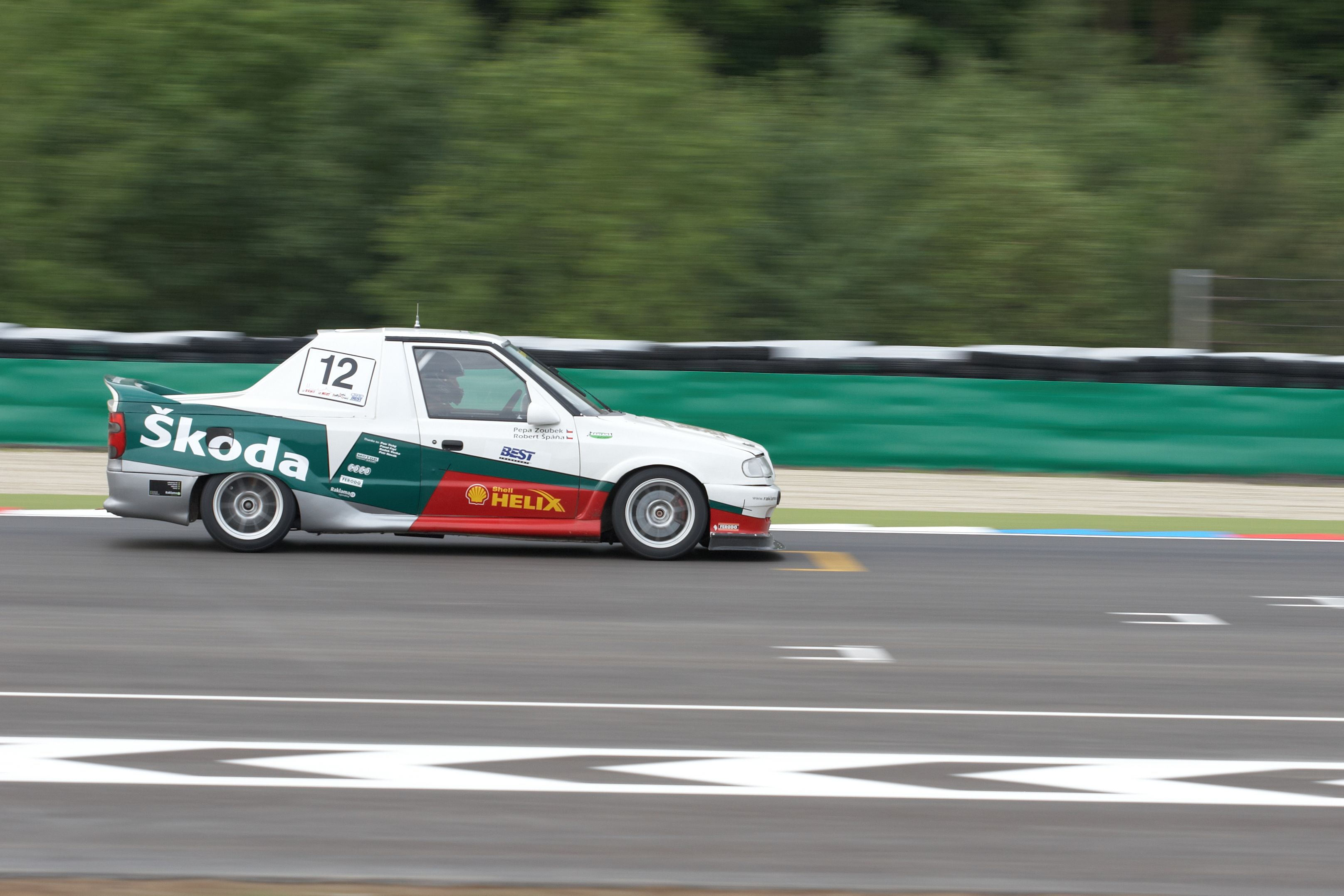 Škoda Felicia PickUp during 12h Le Brno race